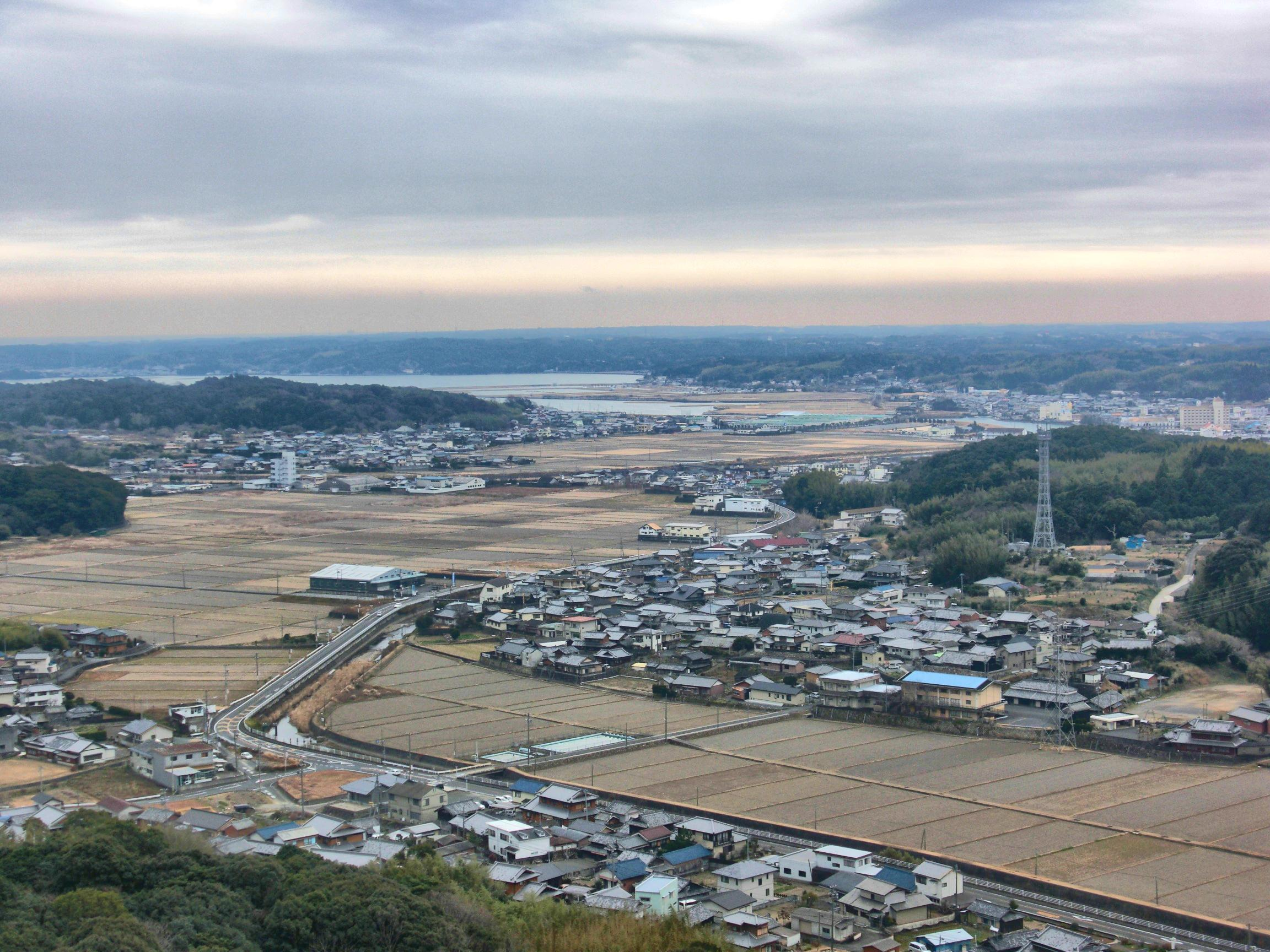 This is a landscape of Isobecho-Erihara, Shima, Mie, Japan.